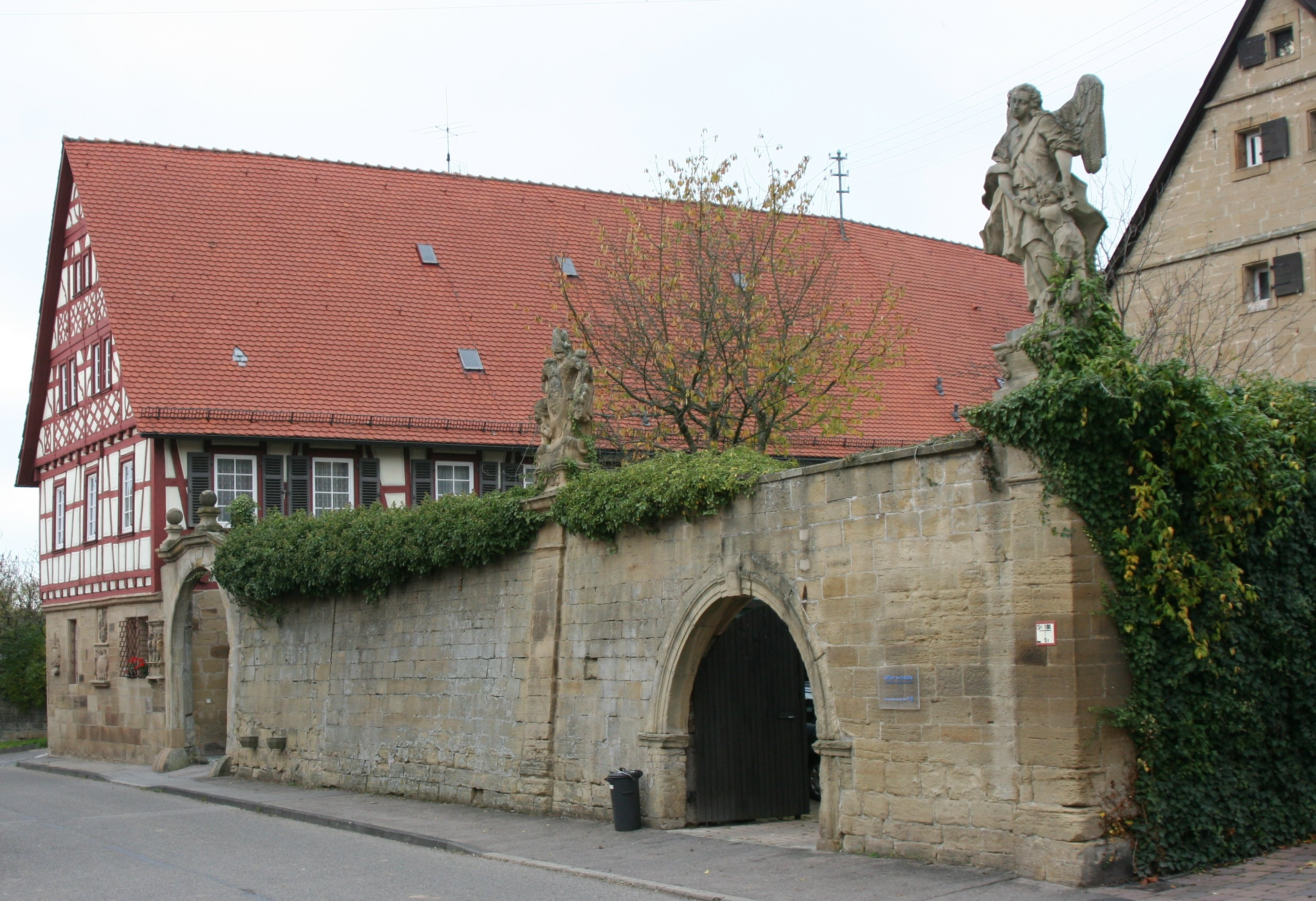 The Schöntaler Pfleghof (administrative building of Schöntal monastery) in Wimmental, Germany